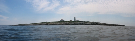 Machias Seal Island, NB in 2005